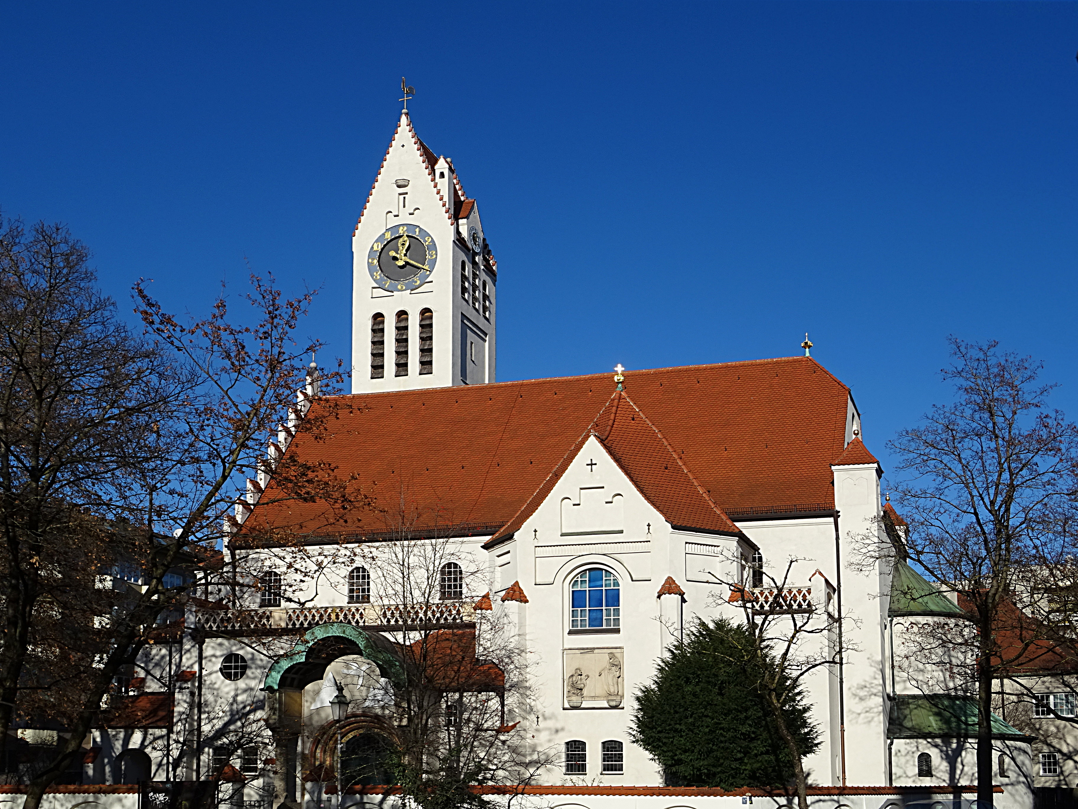 Church of the Redeemer (Munich) from the south; Built 1899-1901 in a mixture of historicism and Art Nouveau